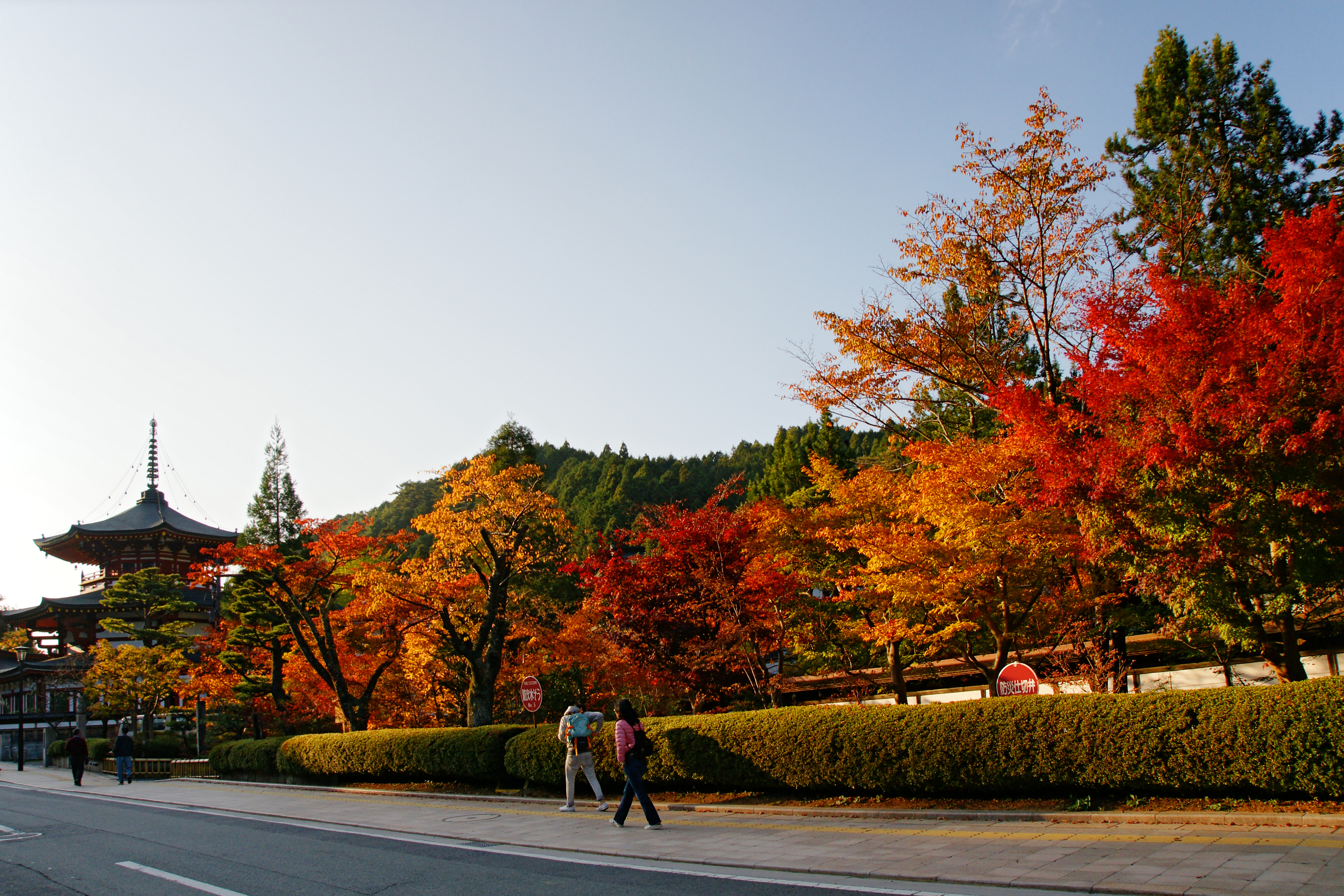 At Mount Kōya in Koya, Wakayama prefecture, Japan.